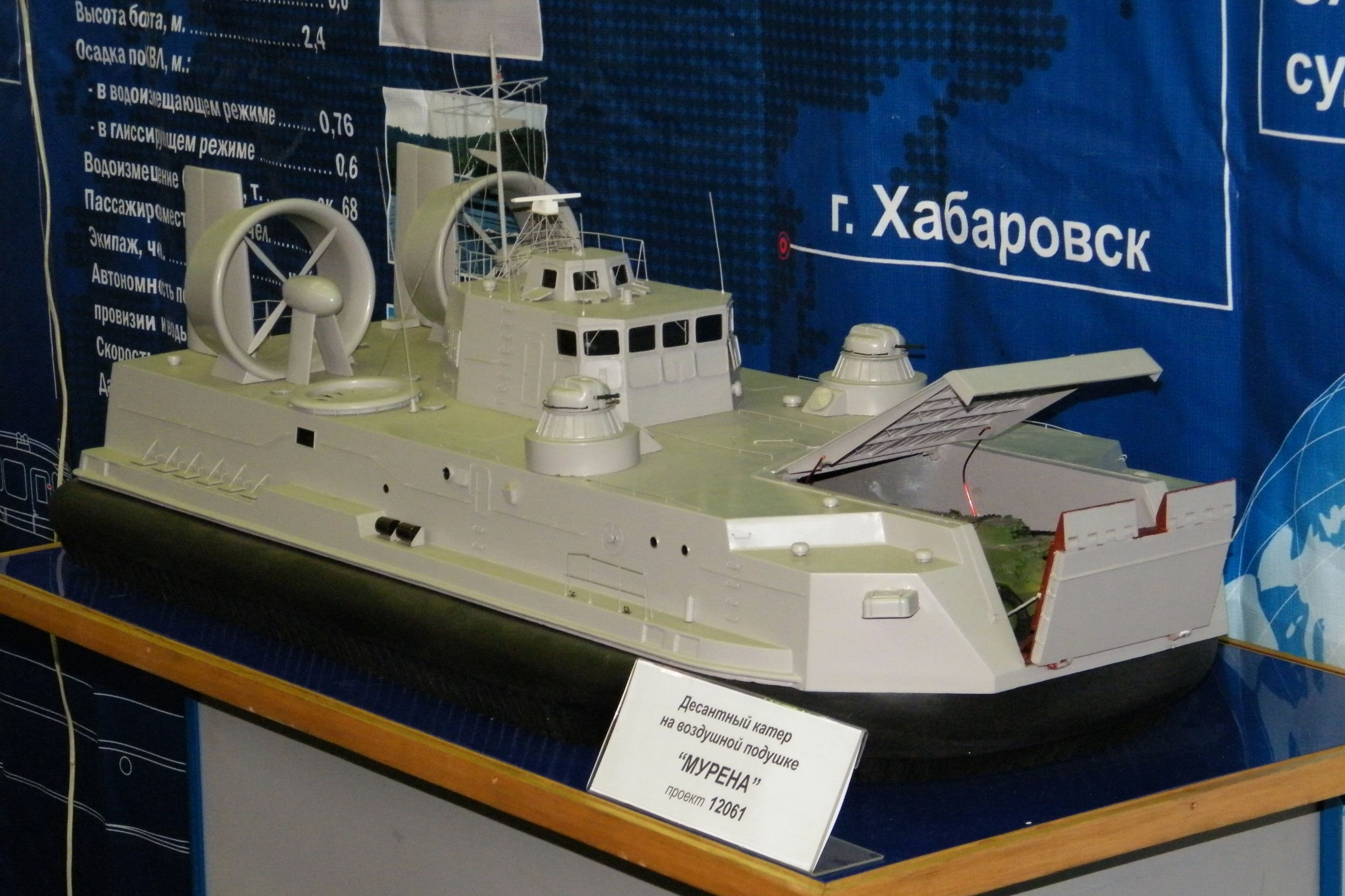 СВП Мурена модель